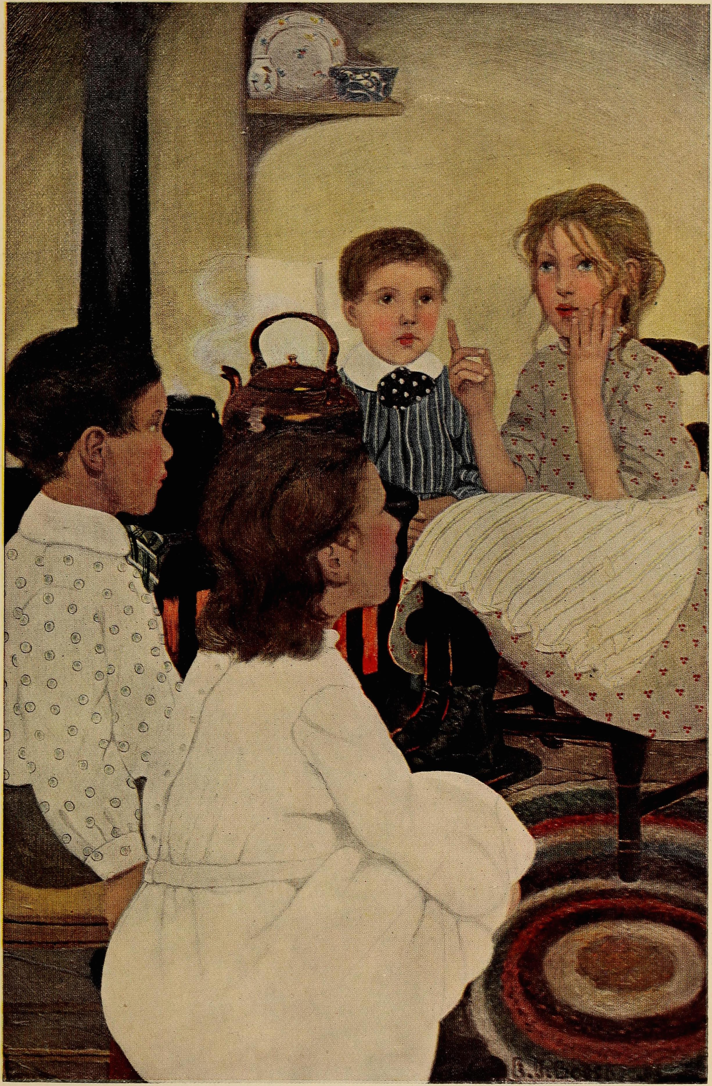 Illustration by Ethel Franklin Betts for “Little Orphant Annie,” While the Heart Beats Young, by James Whitcomb Riley, Indianapolis: Bobbs‐Merrill Co., 1906, p. 71. Digitized by the Internet Archive from the collection of the Library of Congress. Page image downloaded from the Internet Archive and cropped.